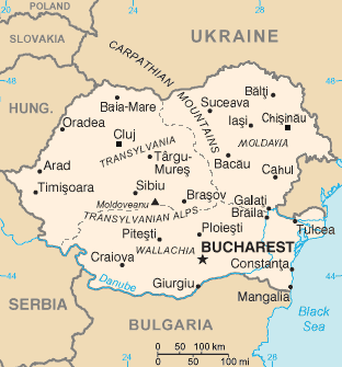 Map showing potential union of Romania and Moldova. Original description: Map of a potential union of Romania and the Republic of Moldova as advocated by unionists in both countries. The image was been modified, stitched together from the CIA Factbook maps of the two countries, but does not qualify for "self" under GFDL disclaimers. It should be PD-USGov.